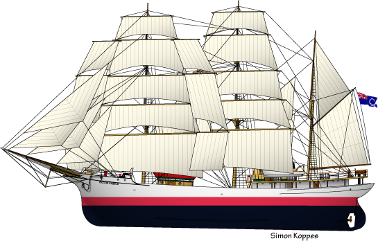 Drawing of the Canadian sailing ship Picton Castle under the flag of the Cook Islands